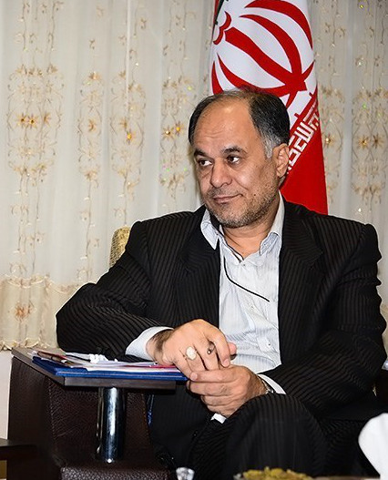 Ali Osat Hashemi in the Tasnim Agency's Office in Zahedan city.